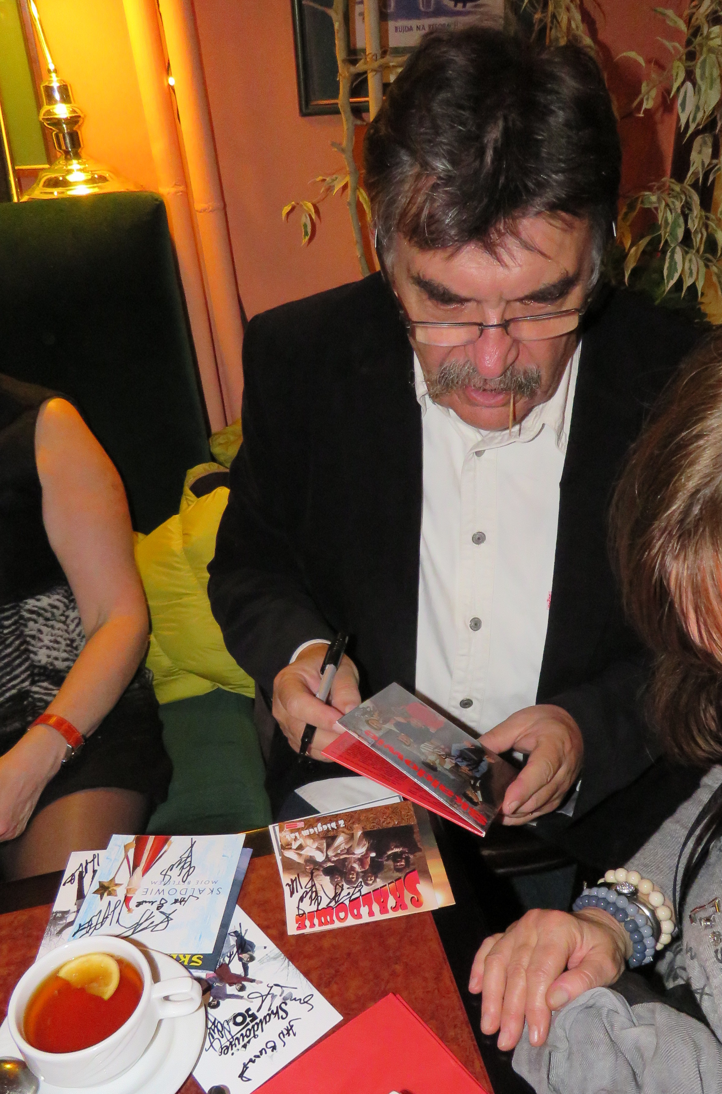 Jan Budziaszek (b. November 21, 1945) – Polish musician, drummer of Skaldowie. He lives in Cracow, Poland